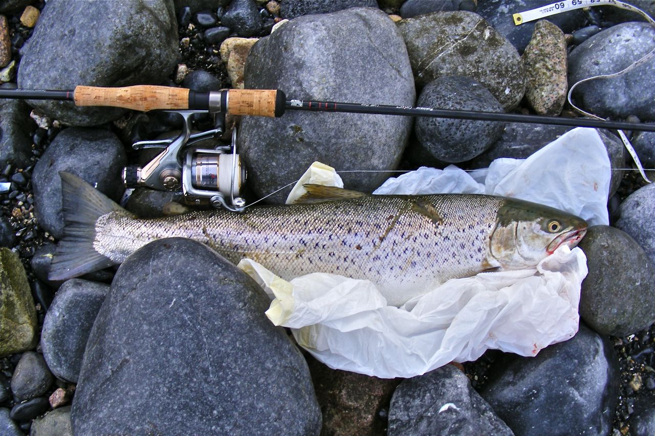 A 60cm sea-trout caught (and promptly released) in Galway Bay on light tackle by William Greene in May 2011.